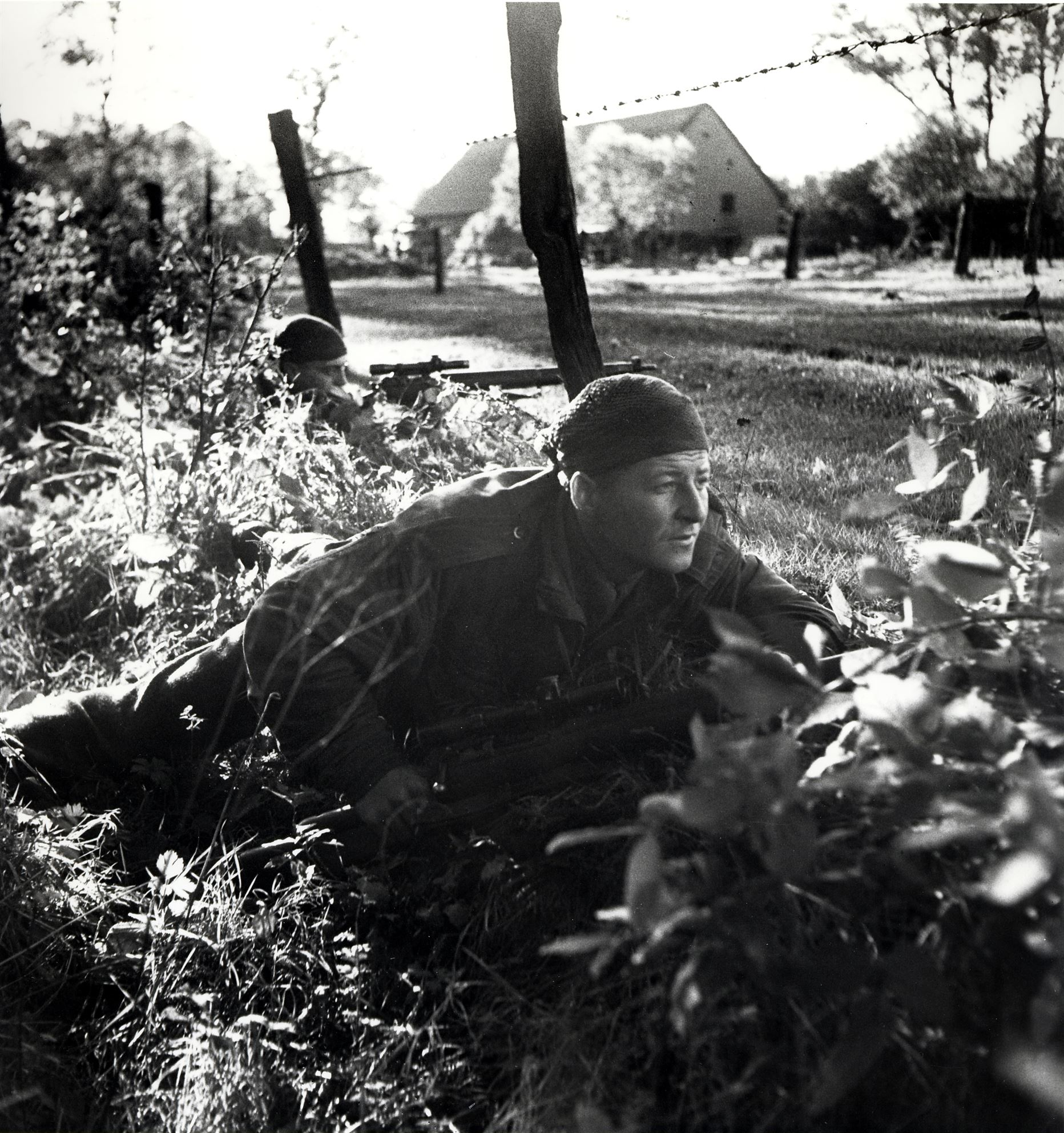 Scouts of the Calgary Highlanders advancing north of Kapellen, October, 1944. (L-R): Sergeant H.A. Marshall, Corporal S. Kormendy